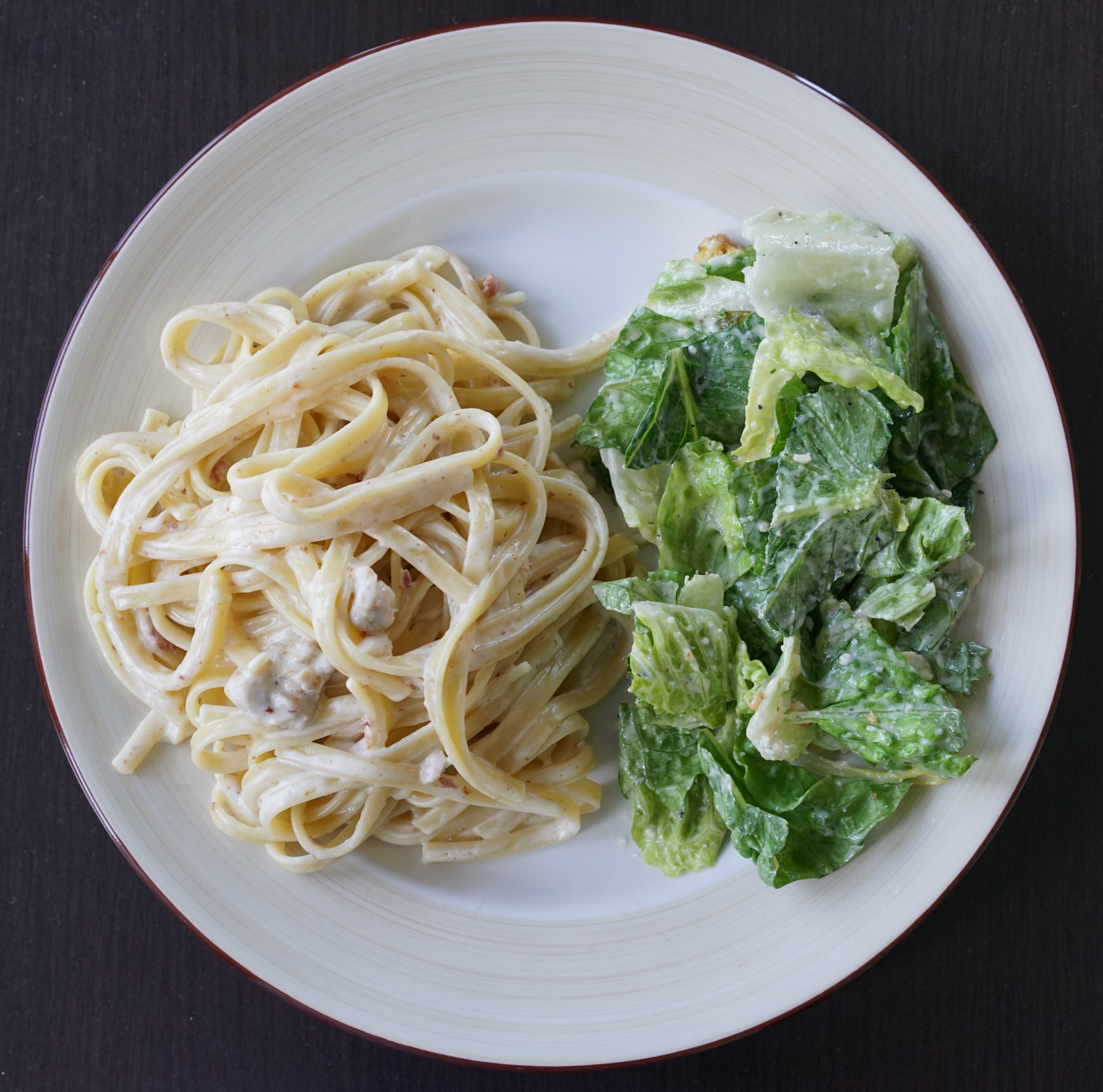 A plate of fettuccine Alfredo with a side of Caesar salad.